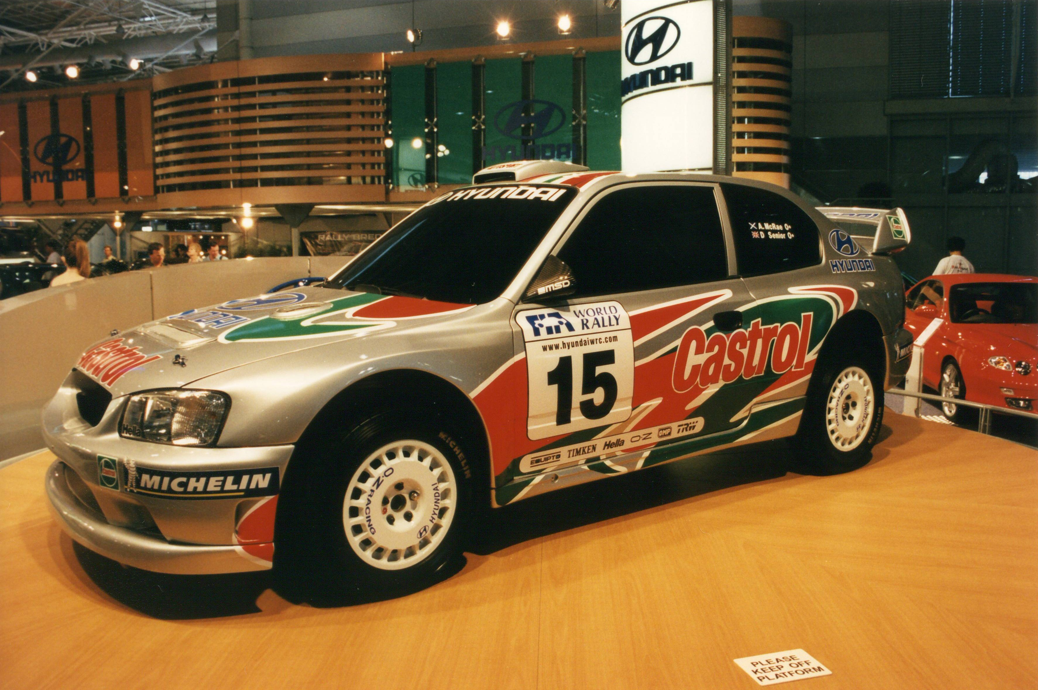 This image is a scan of a 35mm print taken at the 2000 Sydney Motor Show